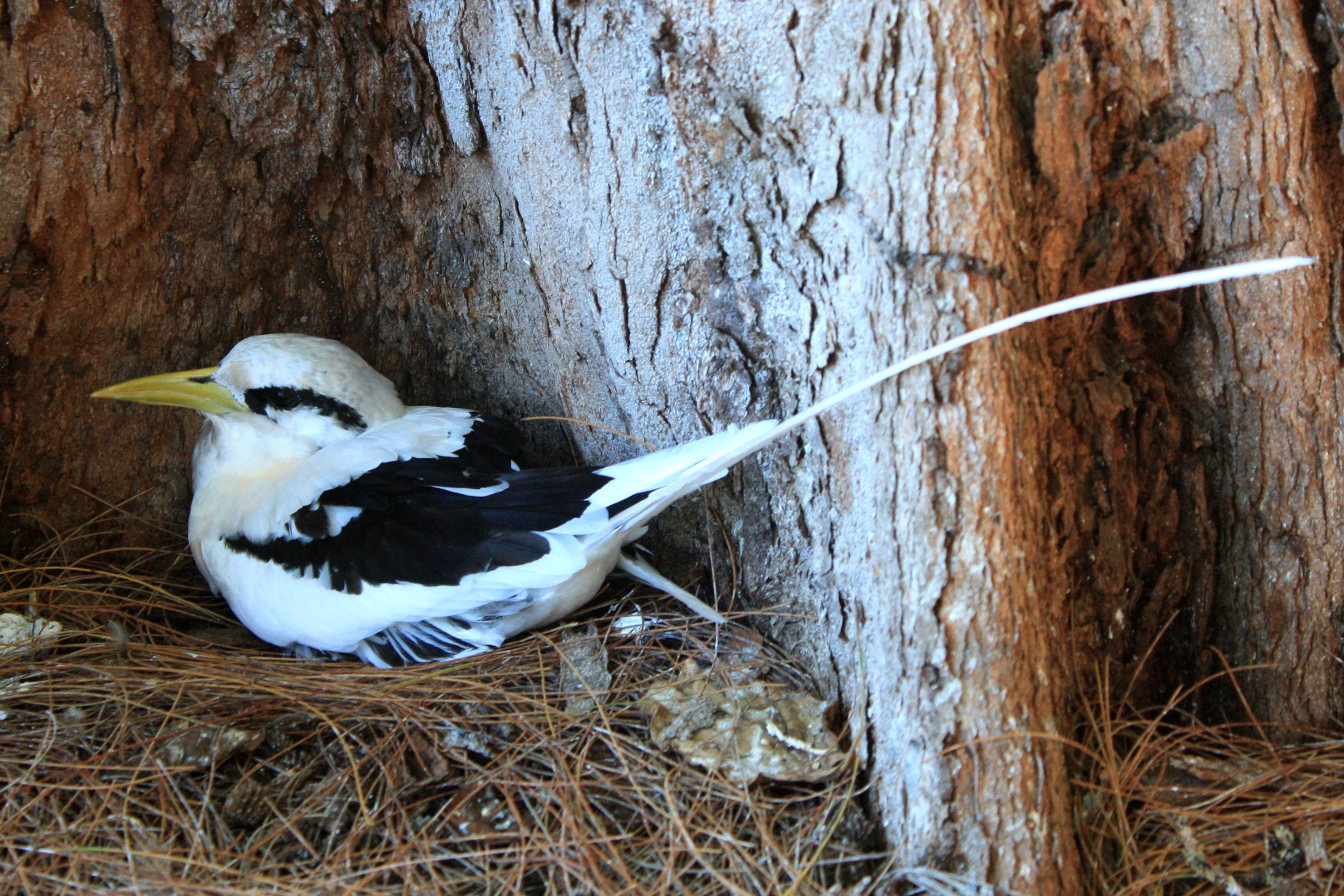 White-tailed Tropicbird (Phaethon lepturus) on Cousin Island, Seychelles